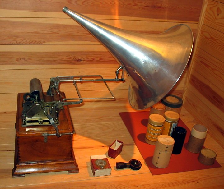 Edison phonograph